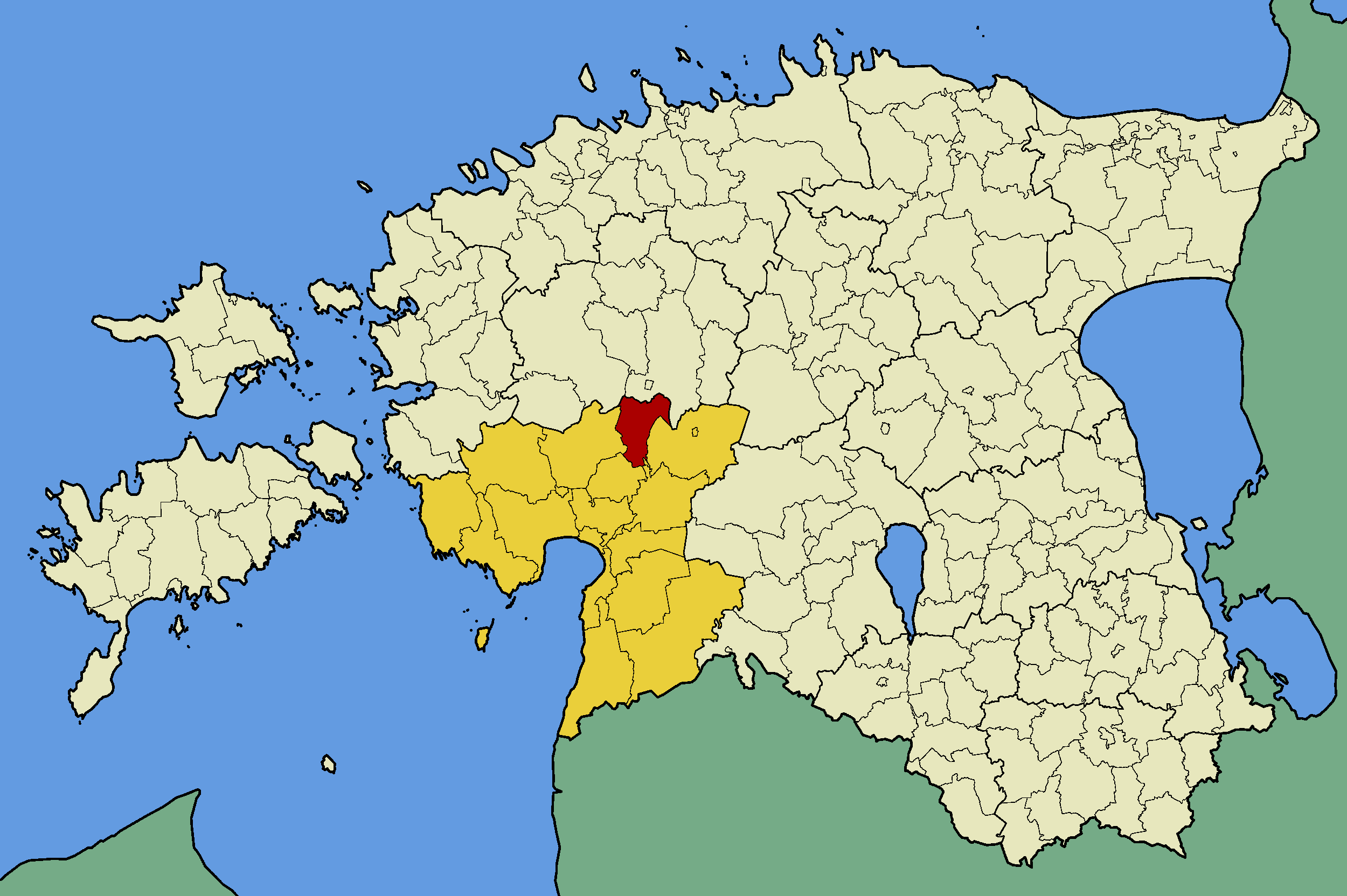 Map of Estonia with borders of municipalities (parishes). Pärnu county and Kaisma municipality emphasized.